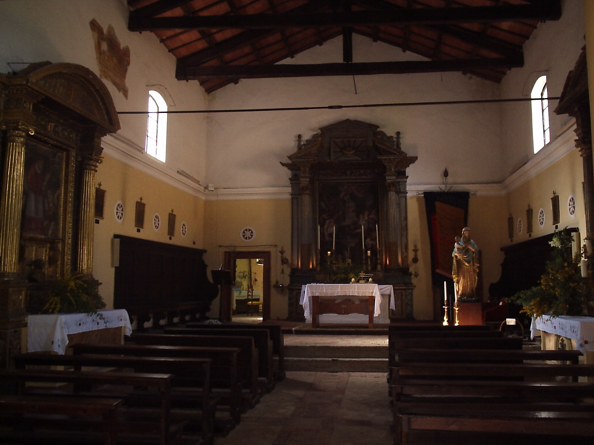 Inside view of the Church of St. John the Beheaded in Nepi